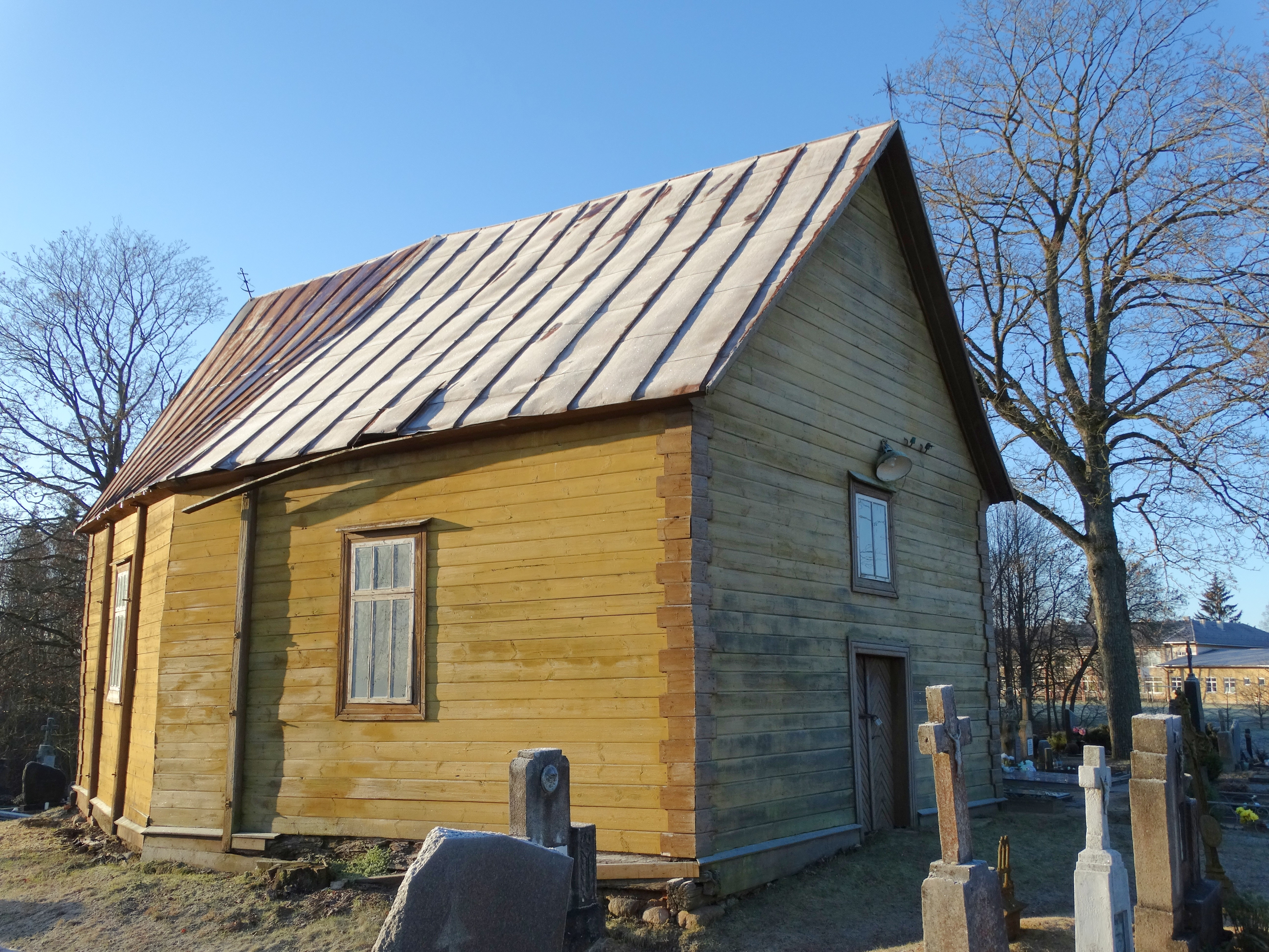 Chapel, Surviliškis, Kėdainiai district, Lithuania